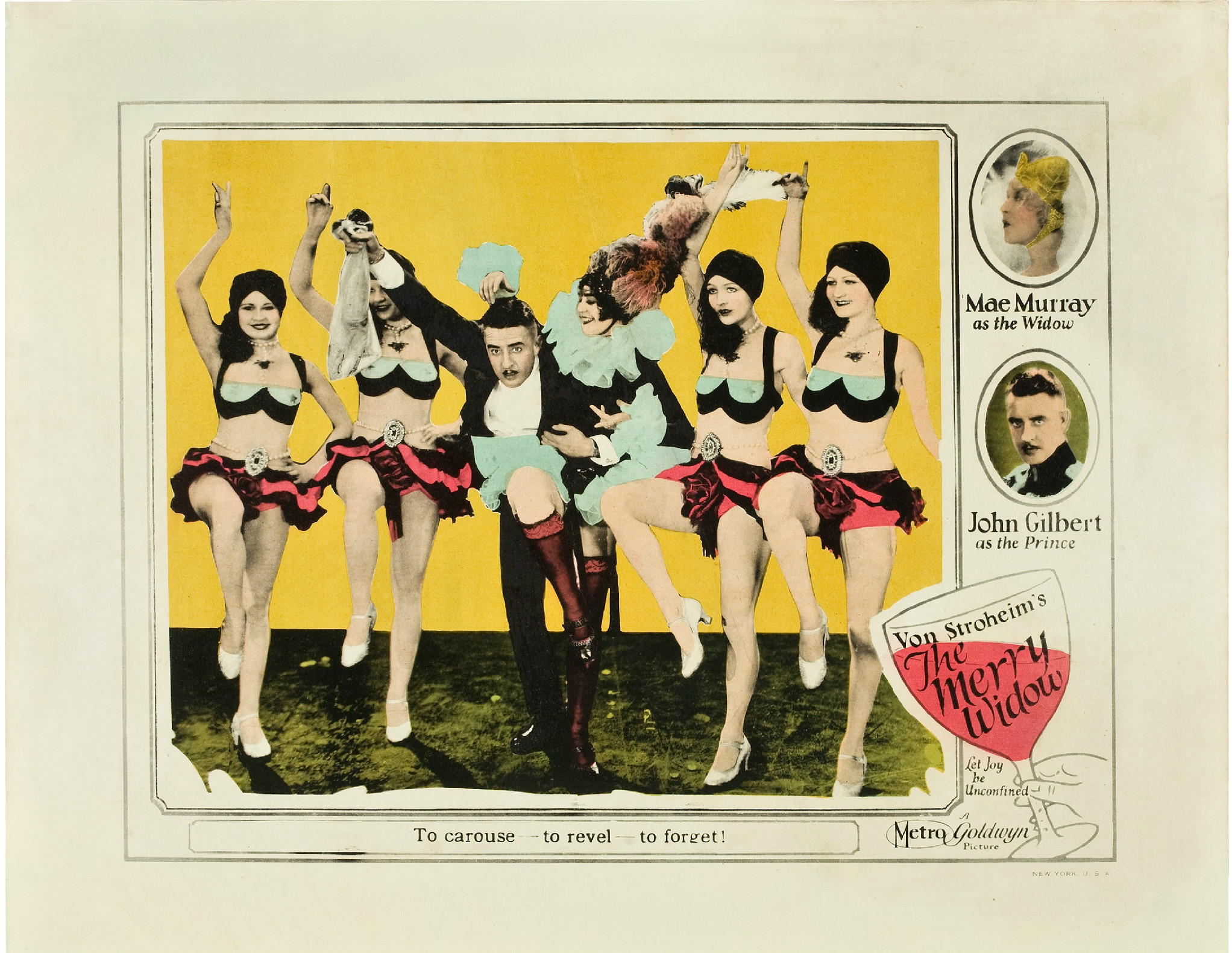 Poster for the American drama film The Merry Widow (1925).